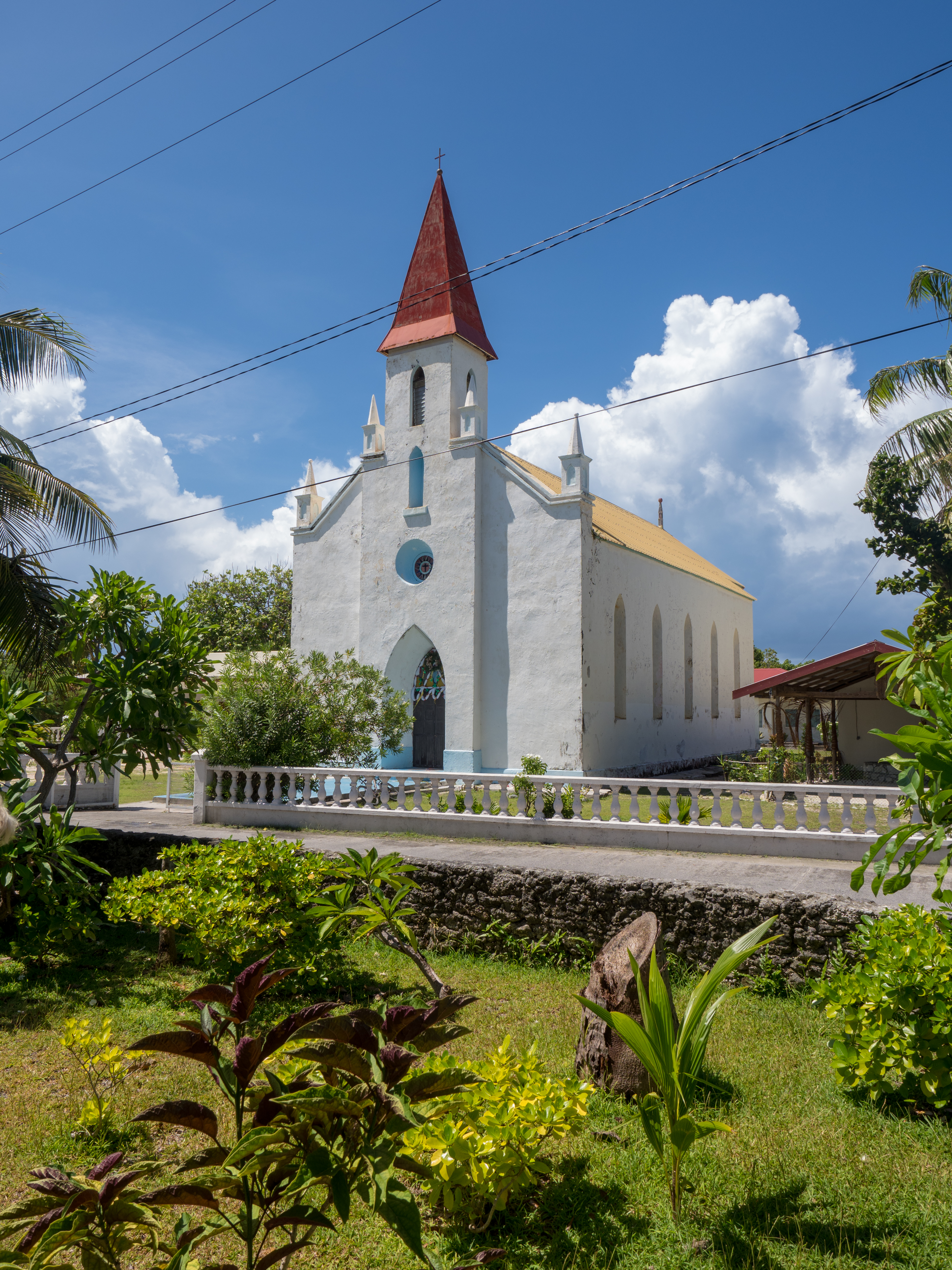 Church Rangiroa French Polynesia